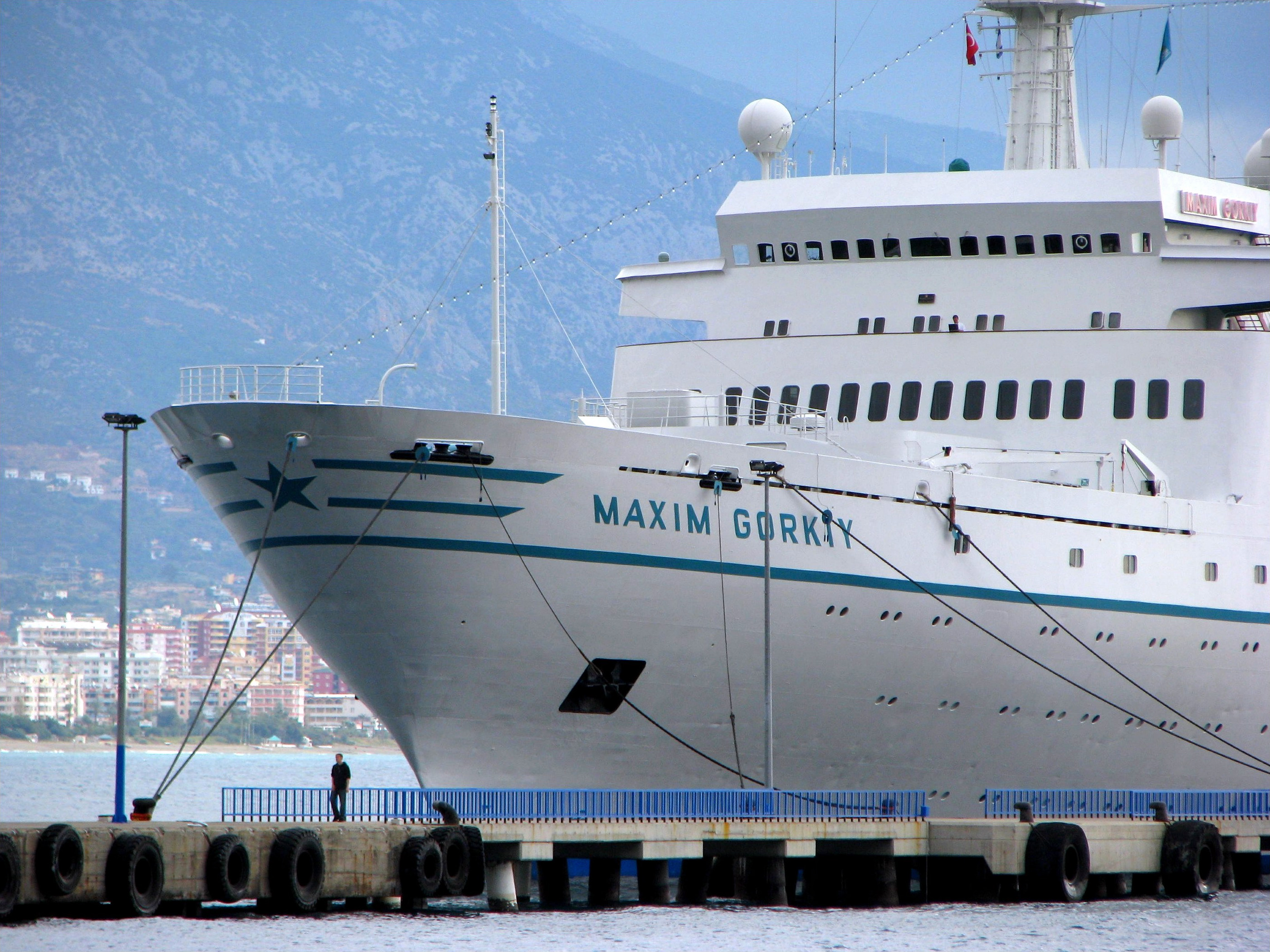 The SS Maxim Gorkiy is a cruise ship owned by Sovcomflot, Russia, under long-term charter to Phoenix Reisen, Germany, until 30 November 2008. She was built in 1969 by Howaldtswerke Deutsche Werft, Hamburg, West Germany for the German Atlantic Line as the SS Hamburg. In 1973 she was renamed the SS Hanseatic. The following year she was sold to the Black Sea Shipping Company, Soviet Union and received her current name in honour of the poet Maxim Gorky. On 20 August 2008 the Maxim Gorkiy was sold to Orient Lines. She was due to enter service with her new owners on 15 April 2009 under the name SS Marco Polo II, but in November 2008 the relaunch of the Orient Lines brand was delayed indefinitely. Source: Maxim_Gorkiy_(cruise_ship)